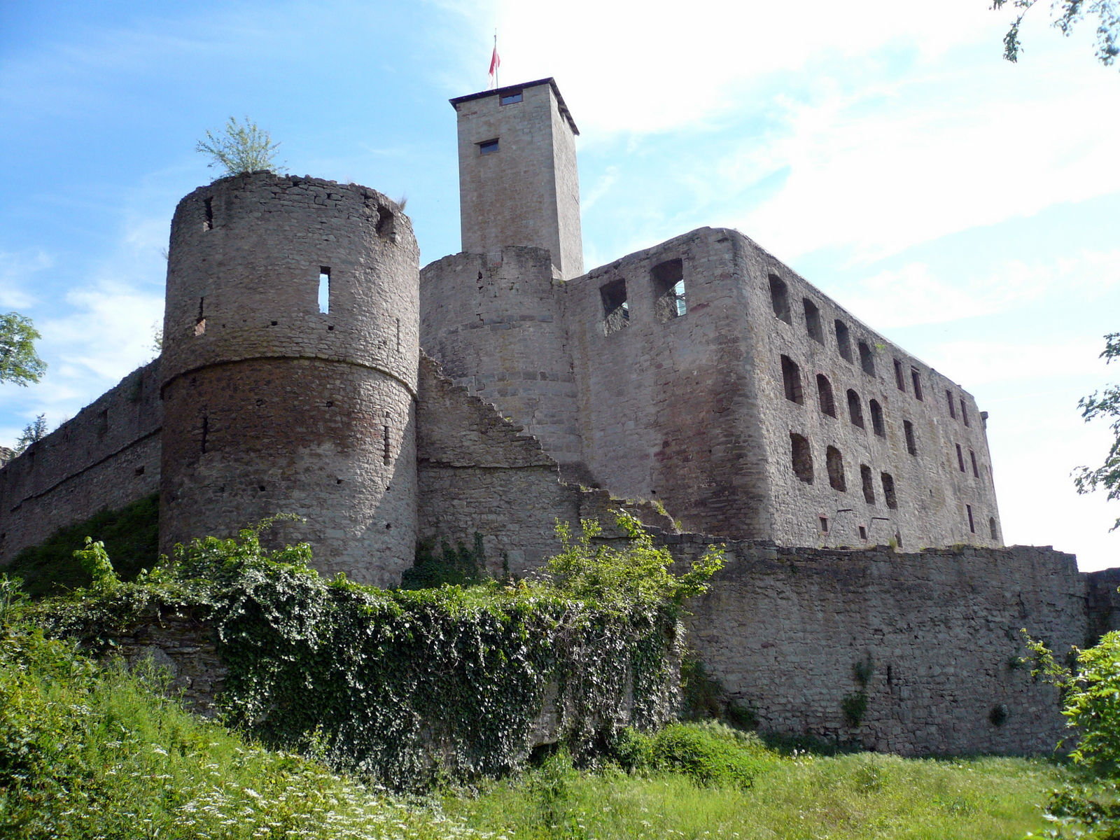 Trimburg, Germany - View from Northeast